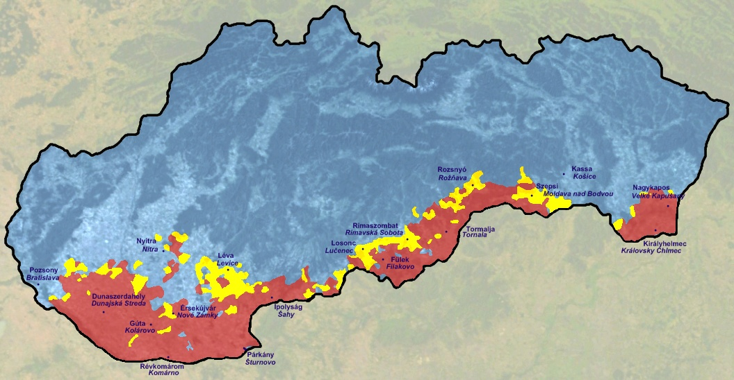 Hungarians in Slovakia, 2001. Red: 50%-100%; Yellow: 10%-50%; Light blue: 0-10%.